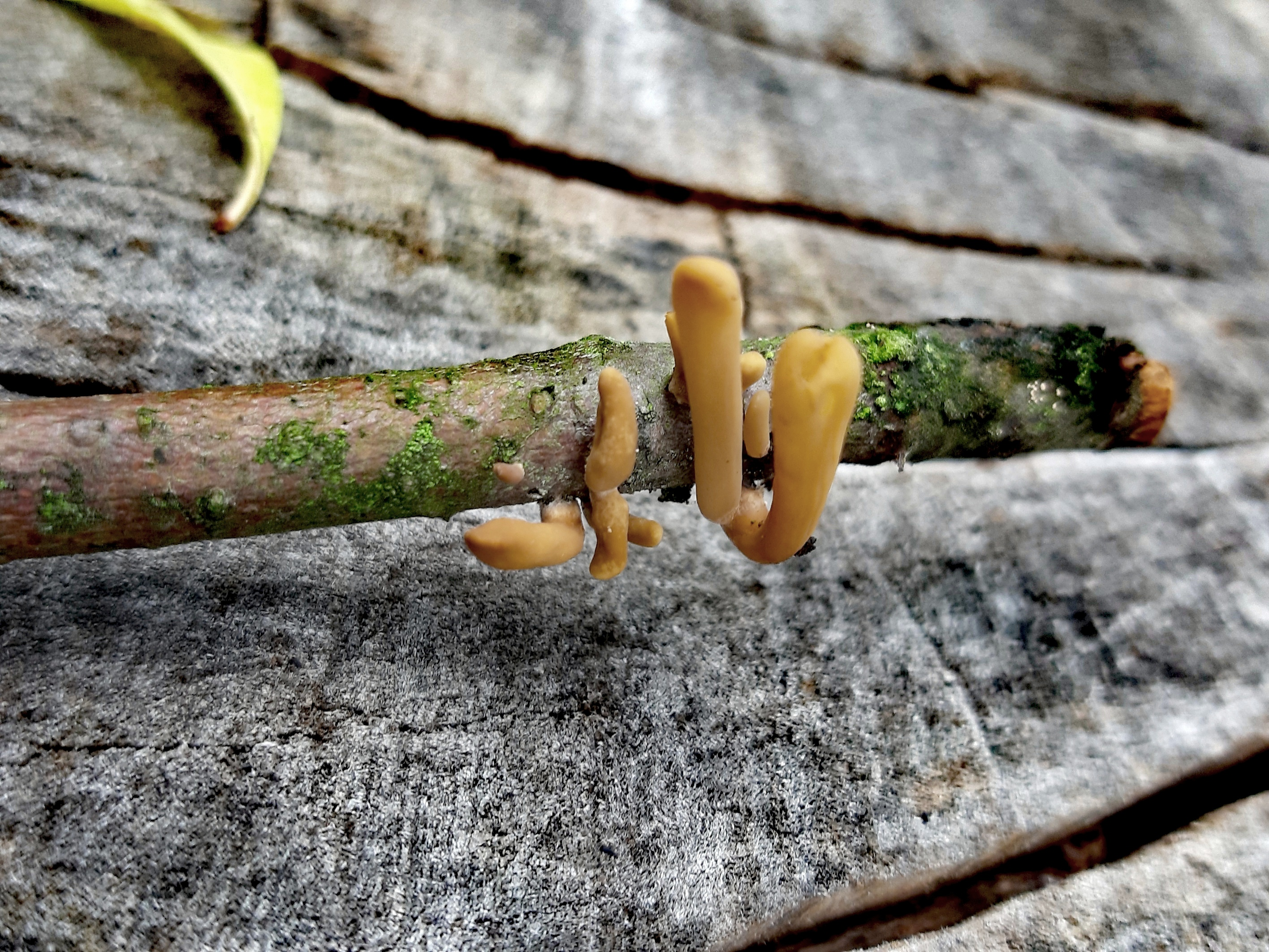 group of fruiting bodies on the branch